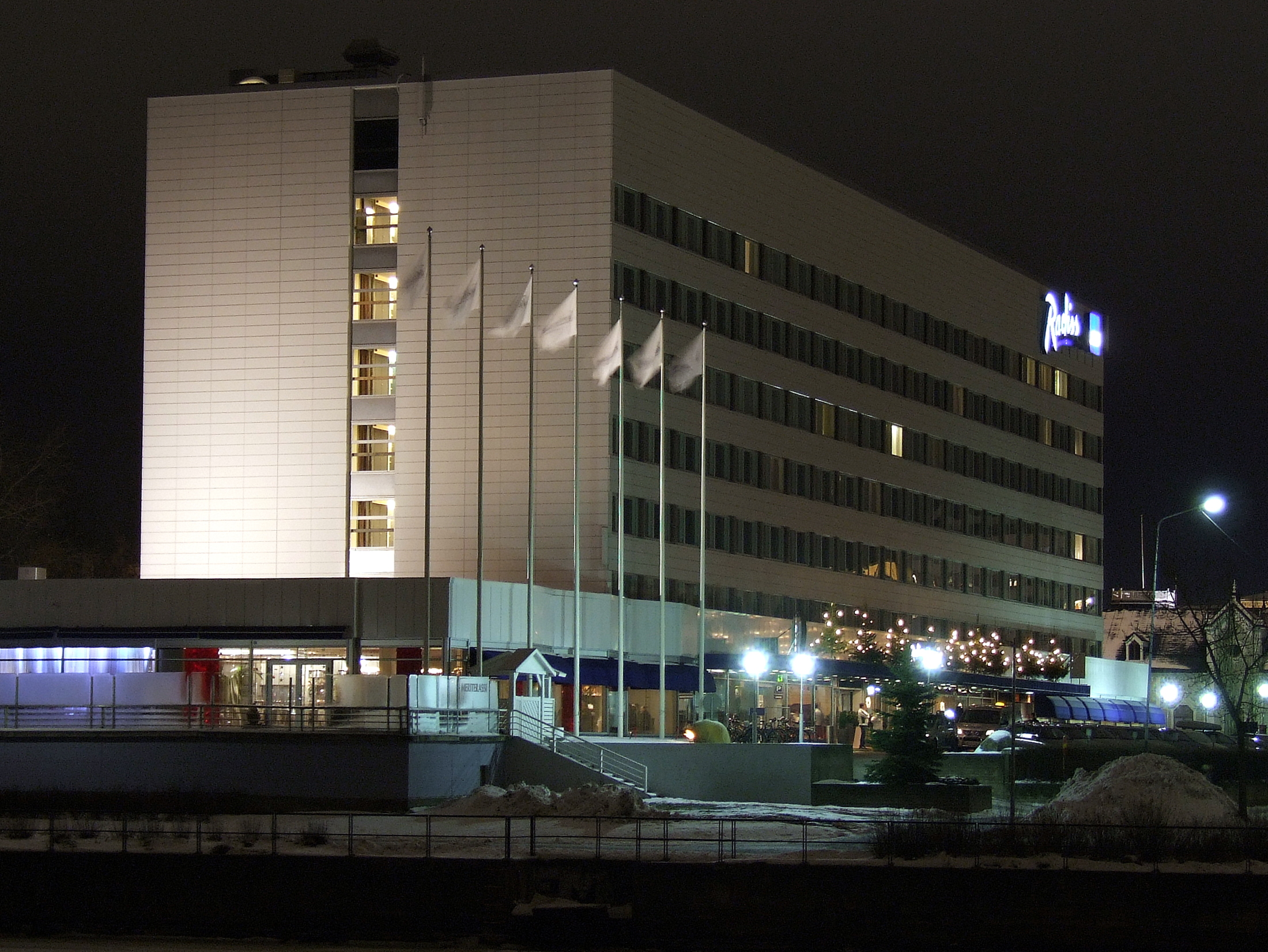 Radisson SAS Hotel in Oulu. The hotel was designed by architect Pauli Lehtinen and was built in 1973 and enlarged in 1979.